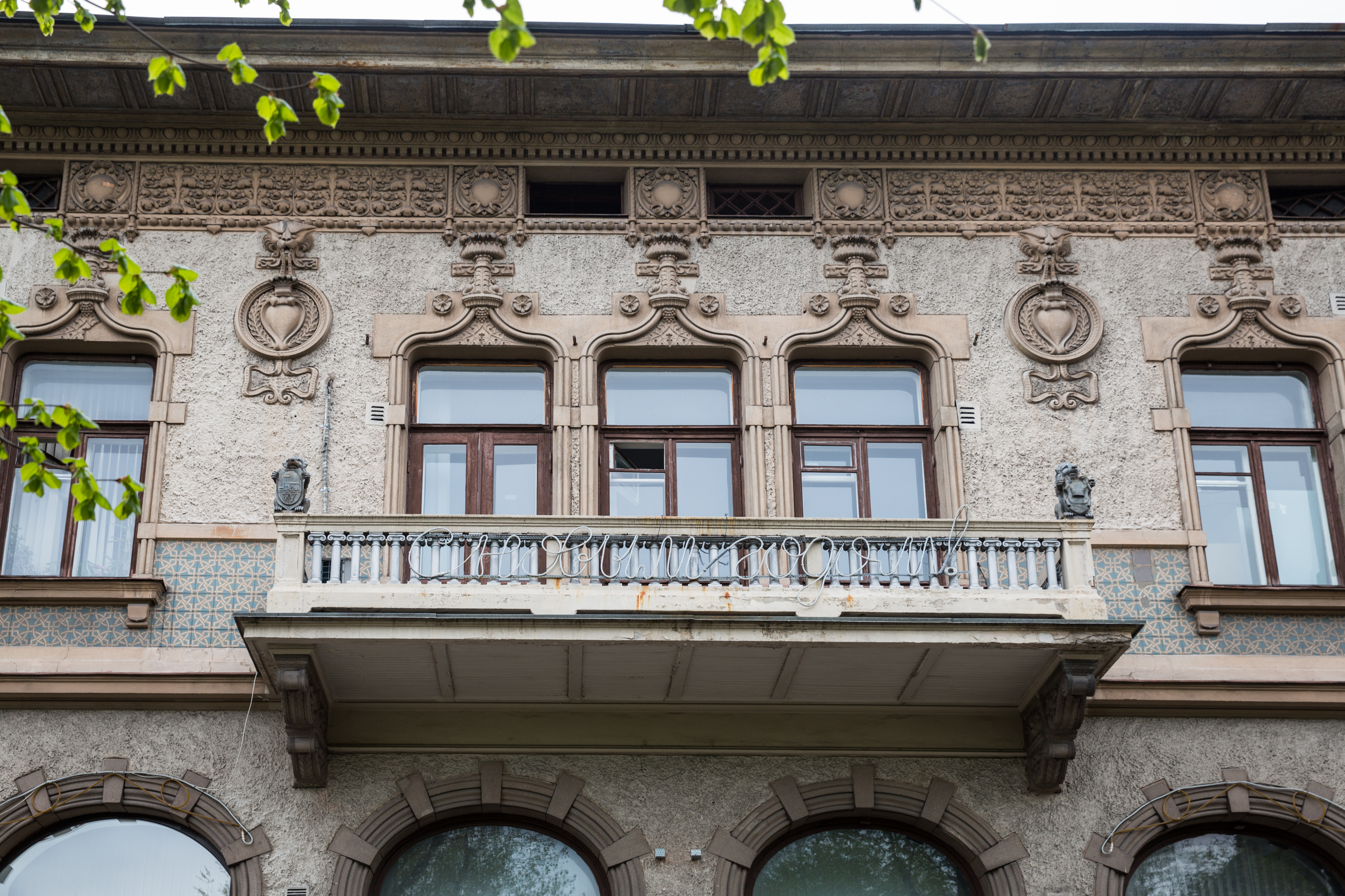 Vyborg, Karelian Isthmus, Russia Karelian Isthmus was part of Finland before the WW2. After the war it was ceded to Soviet Union. These buildings are from the Finnish period and they are designed by Finnish architects. Some of them have been repaired, but some are in poor condition. Torikatu 2 (Pionerskaja ulitsa) arkkitehti: Gustaf Nyström, 1900 Pankkirakennus